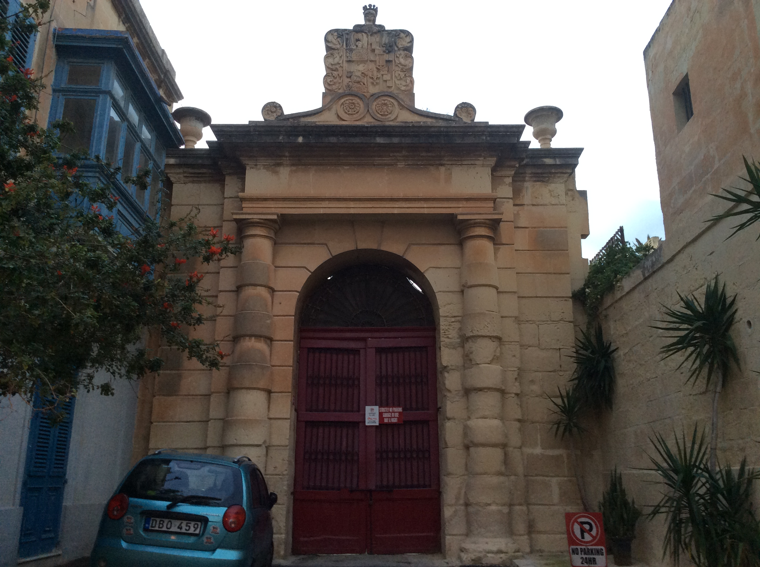 Villa Bonici Arch in Sliema Malta - preserved